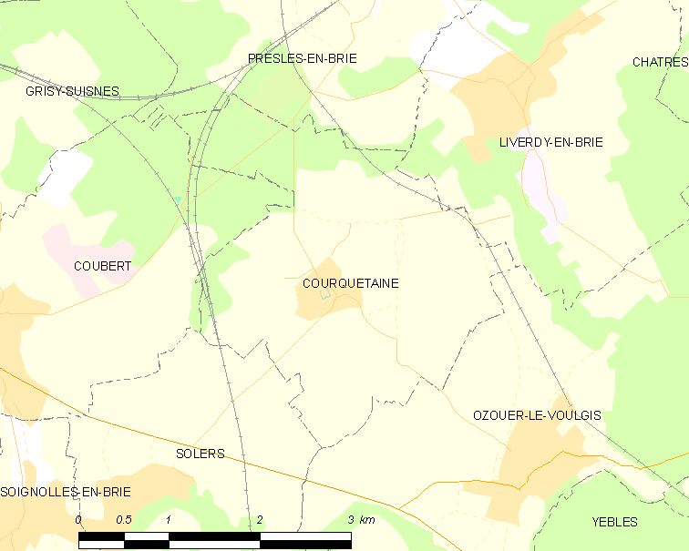 Map of French municipality Courquetaine